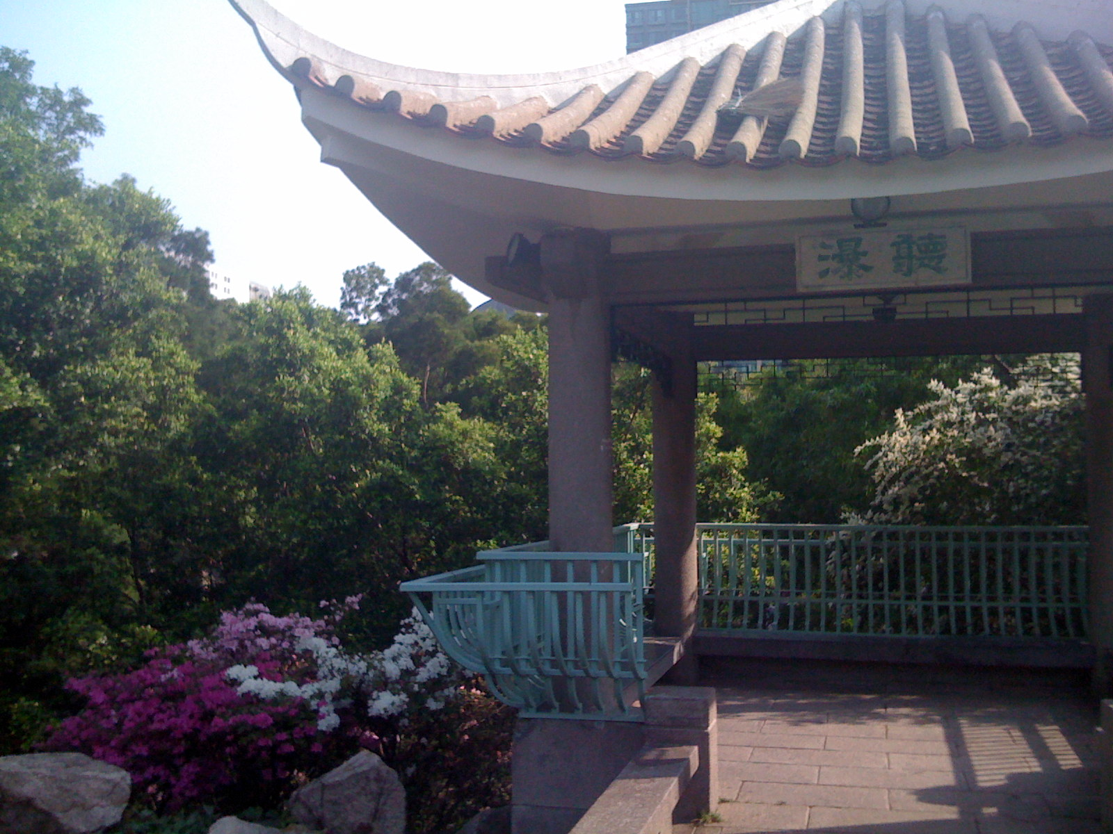 Hutchison Park, Hung Hom, Kowloon, Hong Kong SAR